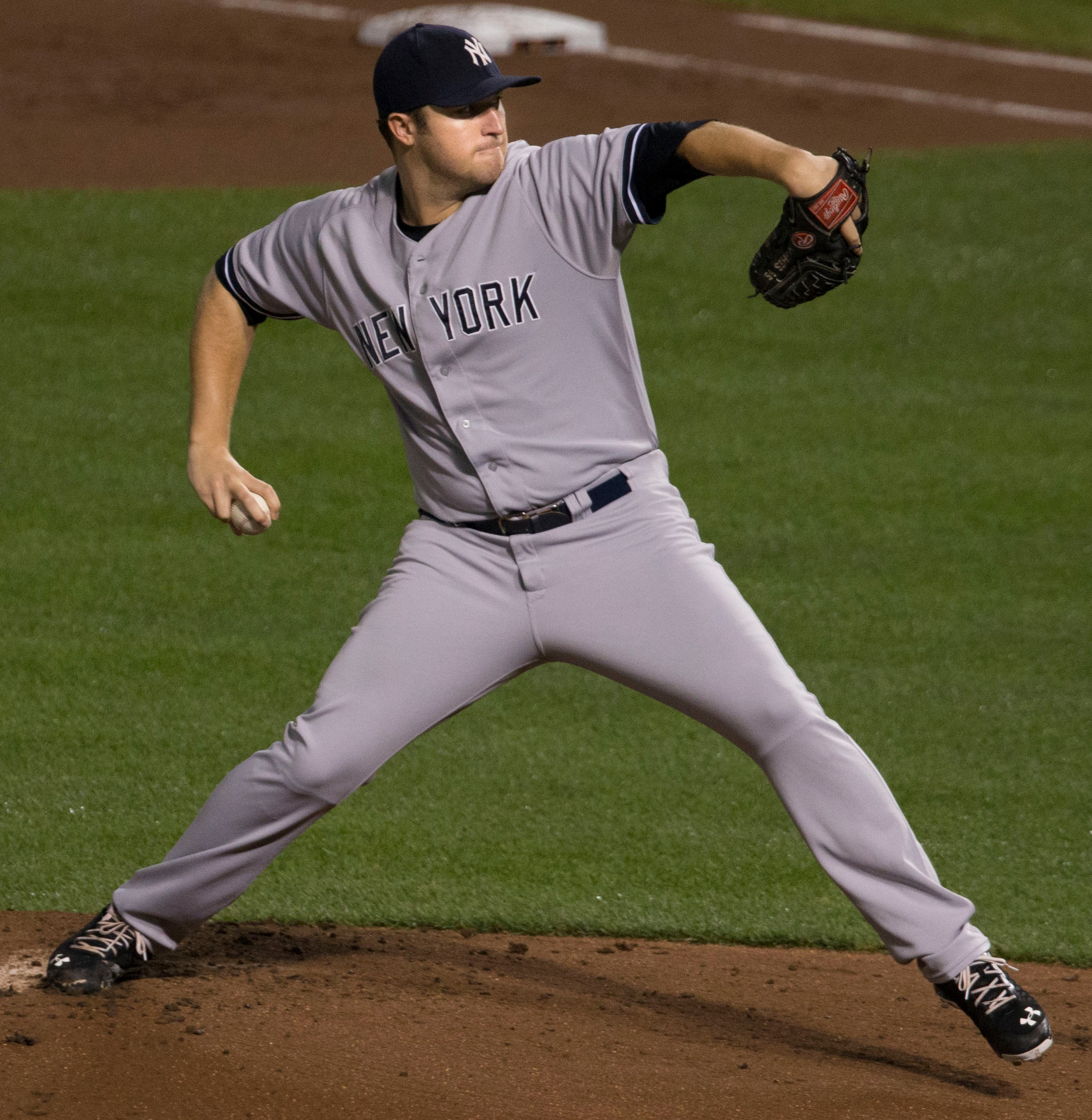 New York Yankees pitcher Phil Hughes pitching in a game against the Baltimore Orioles on september 12, 2013 at Oriole Park at Camden Yards in Baltimore, MD